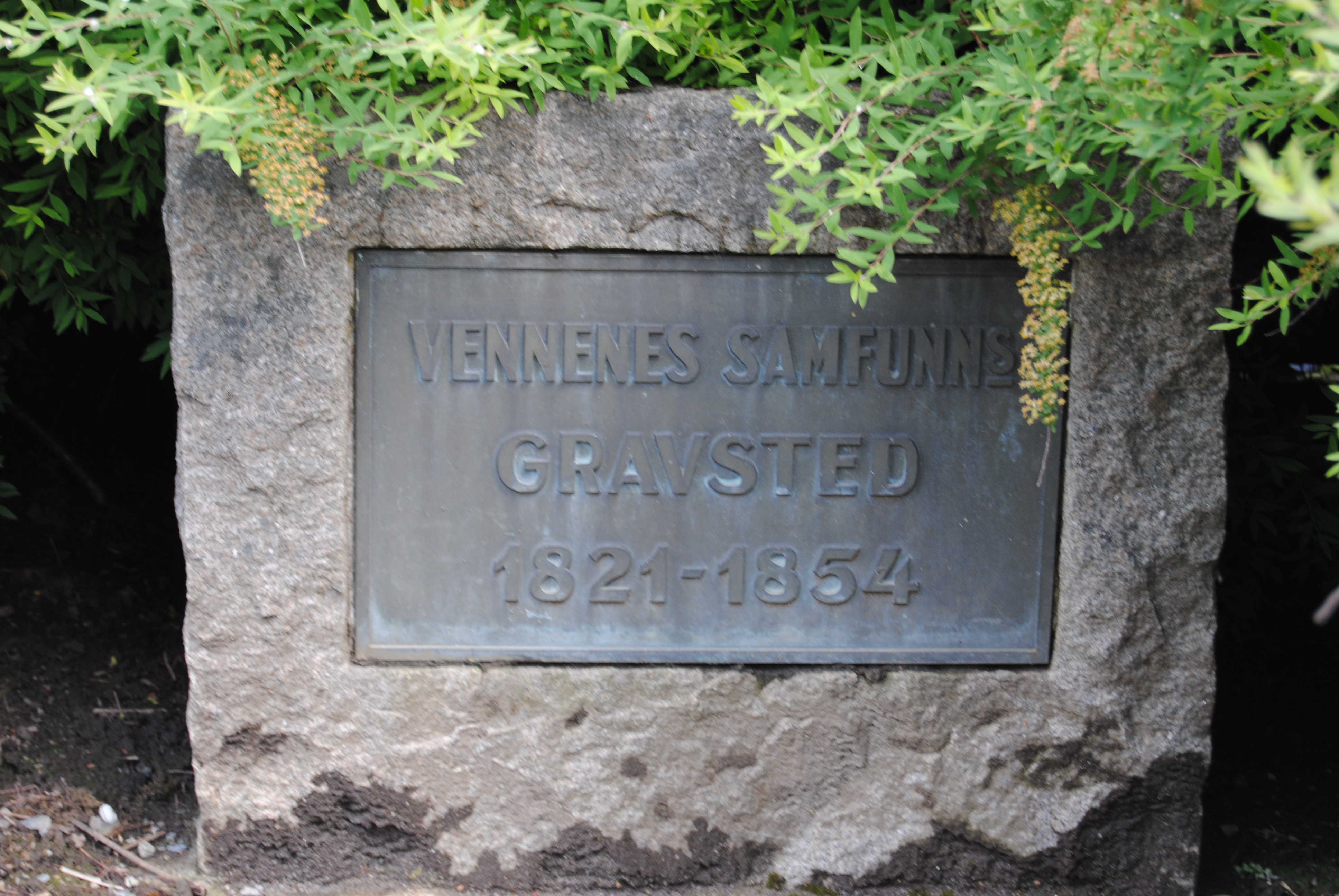 Memorial plate at the old quaker cemetary in Stavanger, Norway